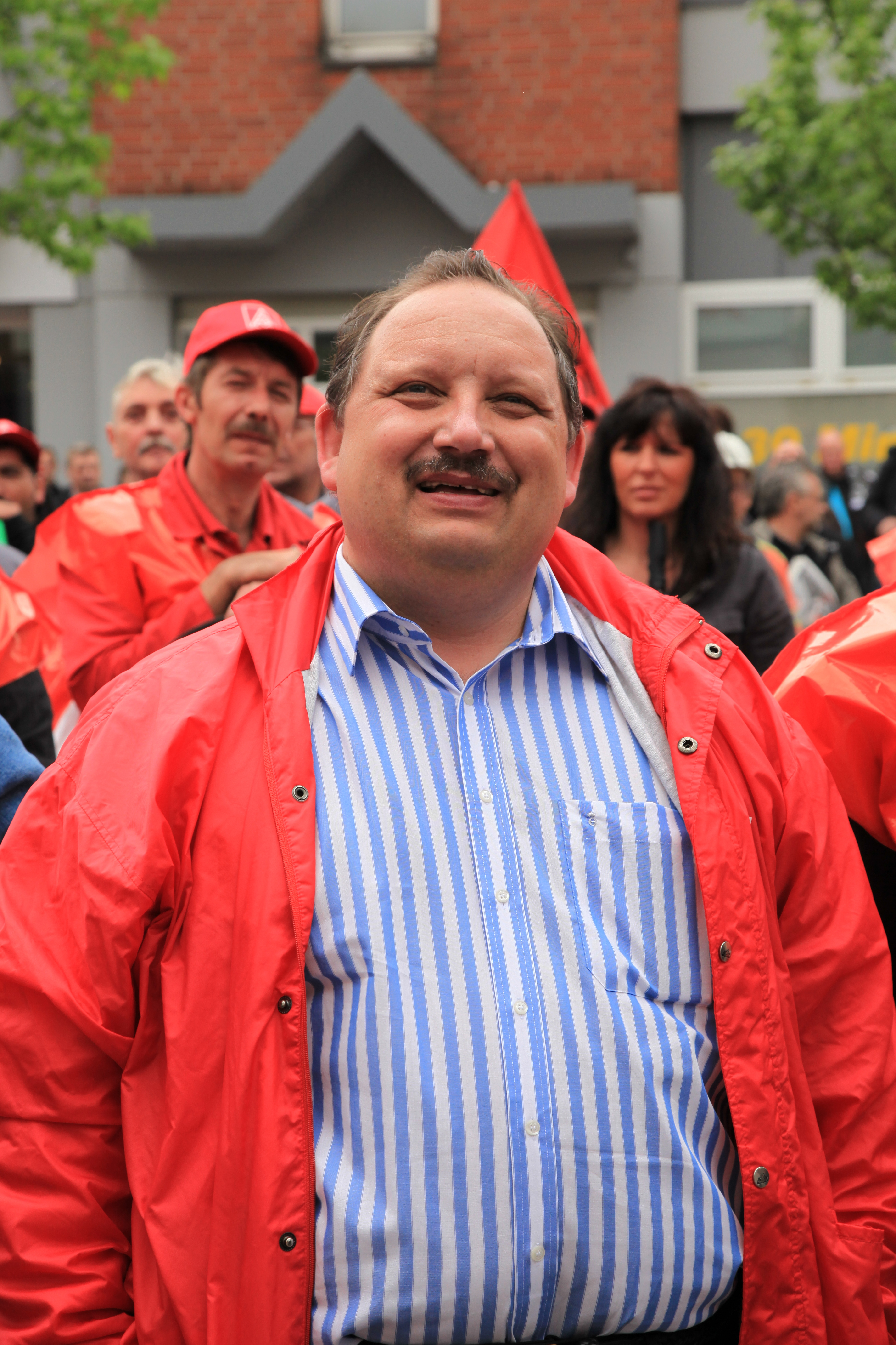 Warning strike of the German trade union IG Metall in Witten